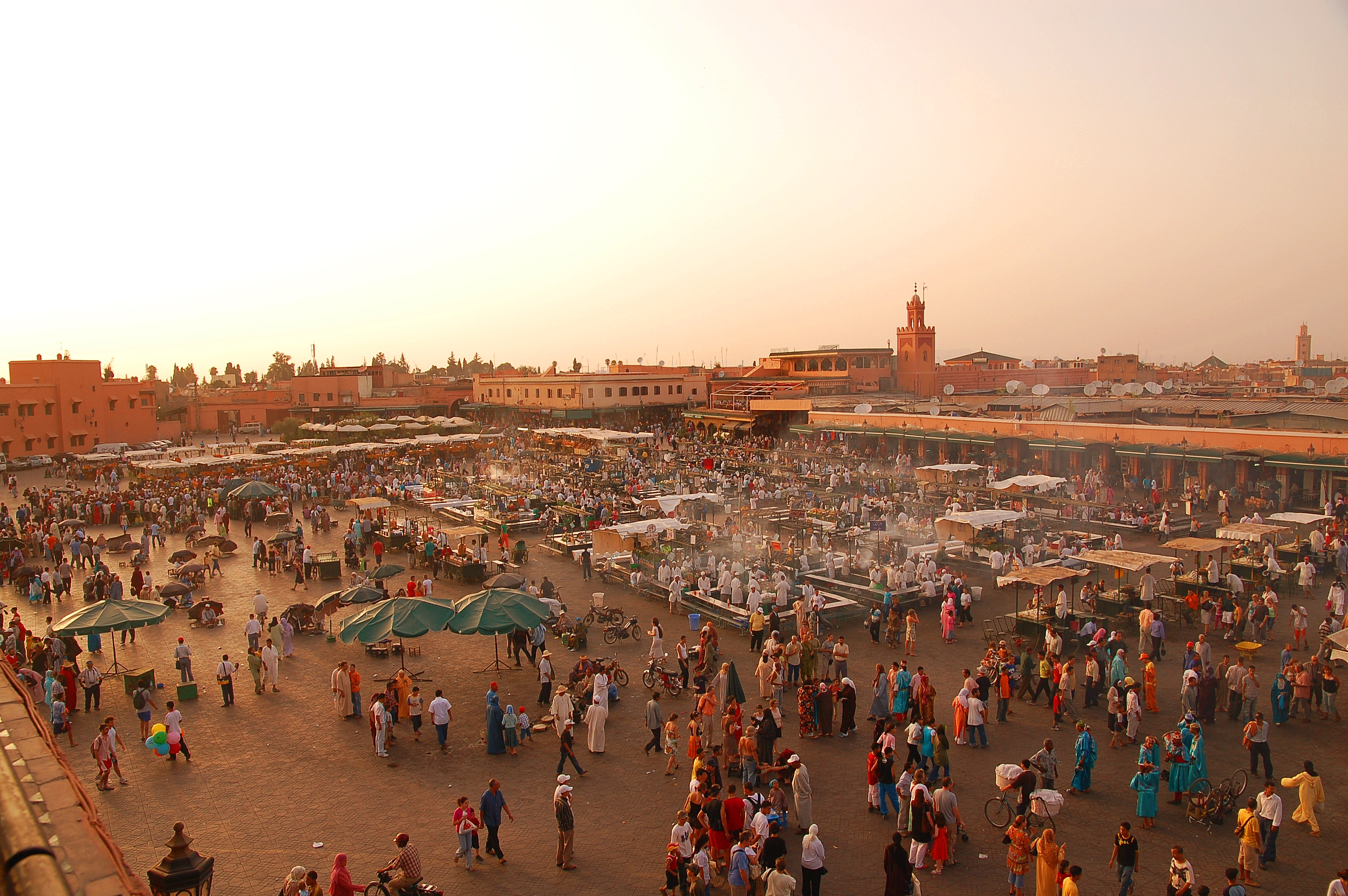 Maroc: Marrakech city, Jemaa-el-Fna market.